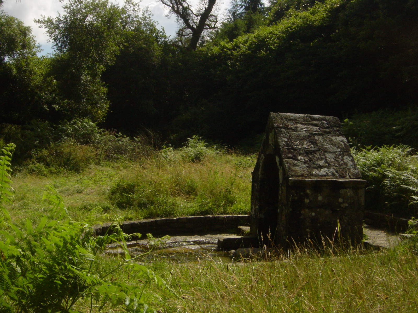 Fountain of saint-Urlo, Languidic, France.